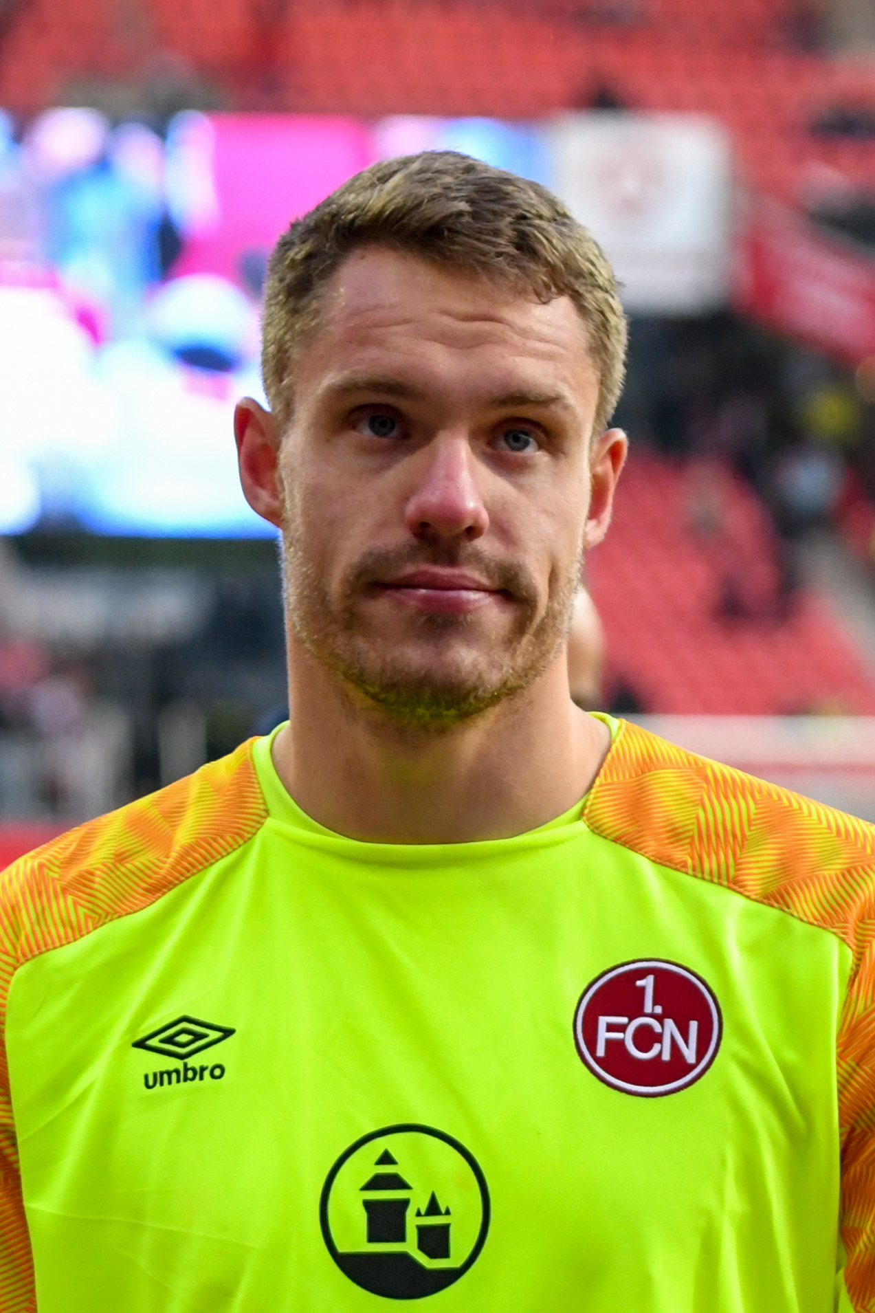 German Soccer League Season 2018/19, 31st match day 1. FC Nürnberg vs. 1. FC Bayern München. Picture shows